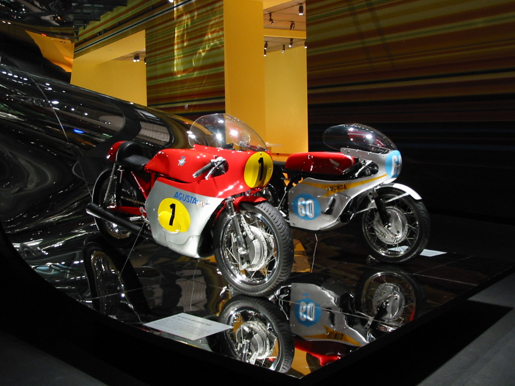 The Art of the Motorcycle, Guggenheim Las Vegas.